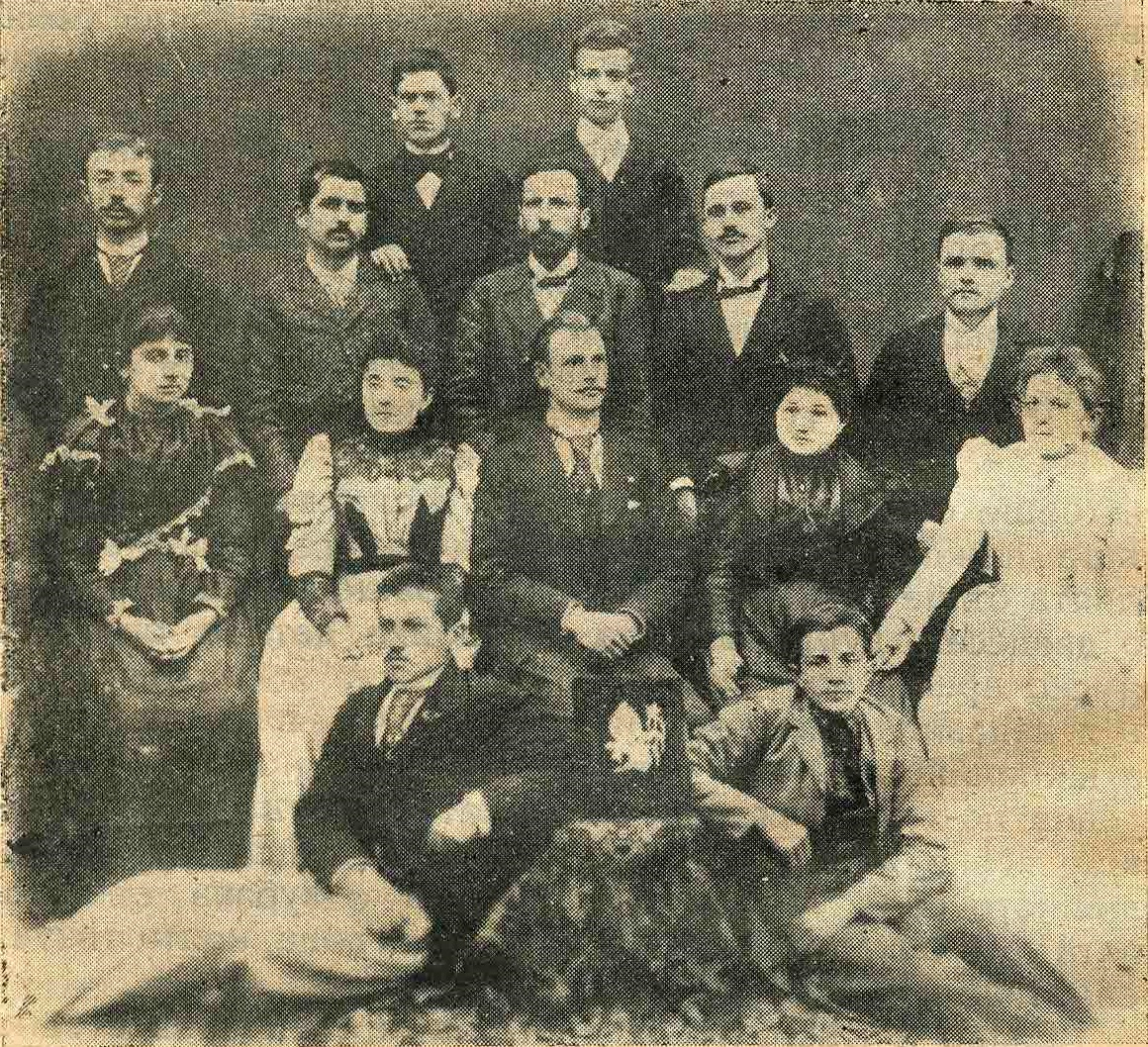 Students_in_Thessaloniki_Bulgarian_High_School_7th Grade